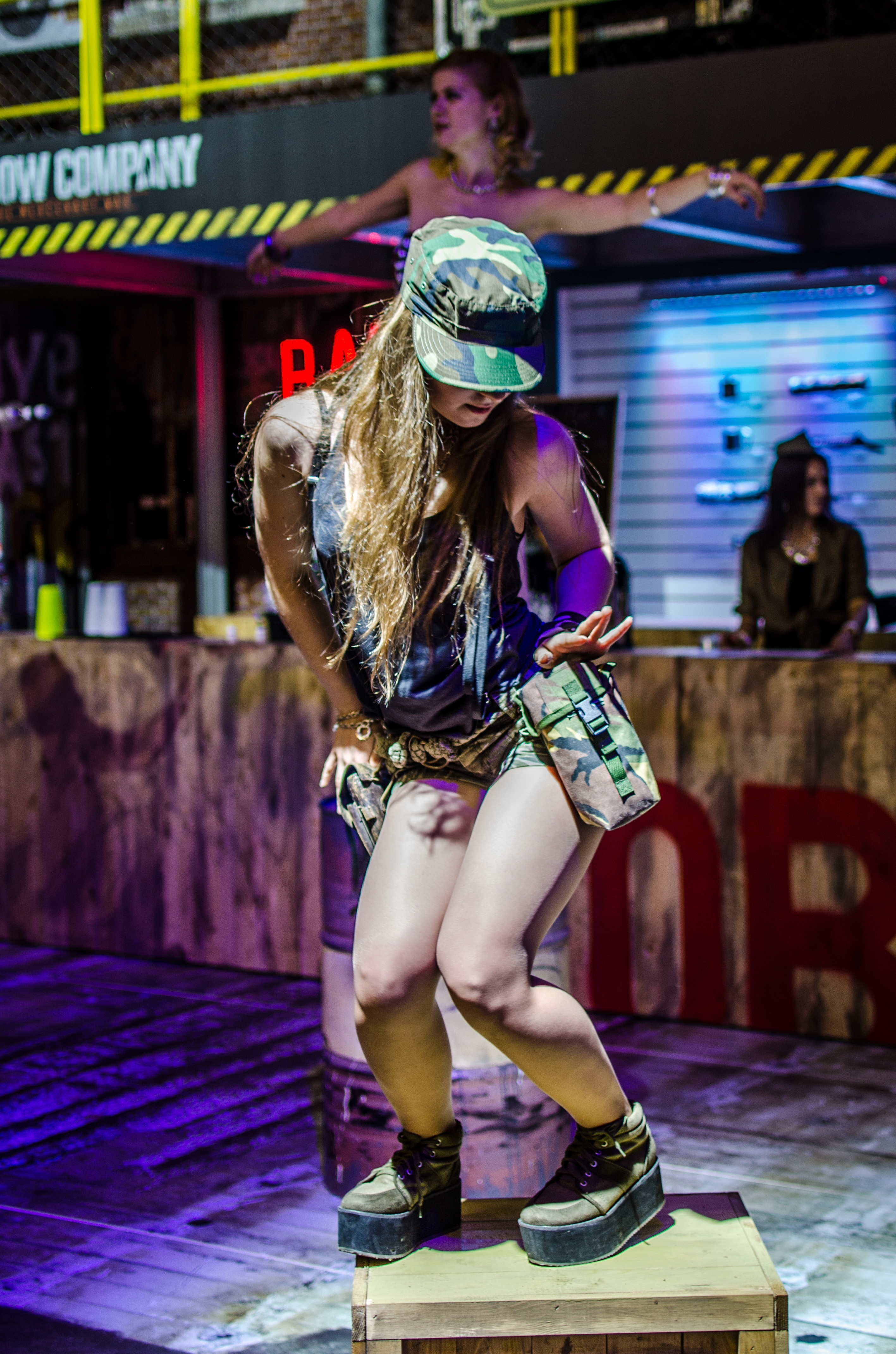 Girl at Igromir 2012